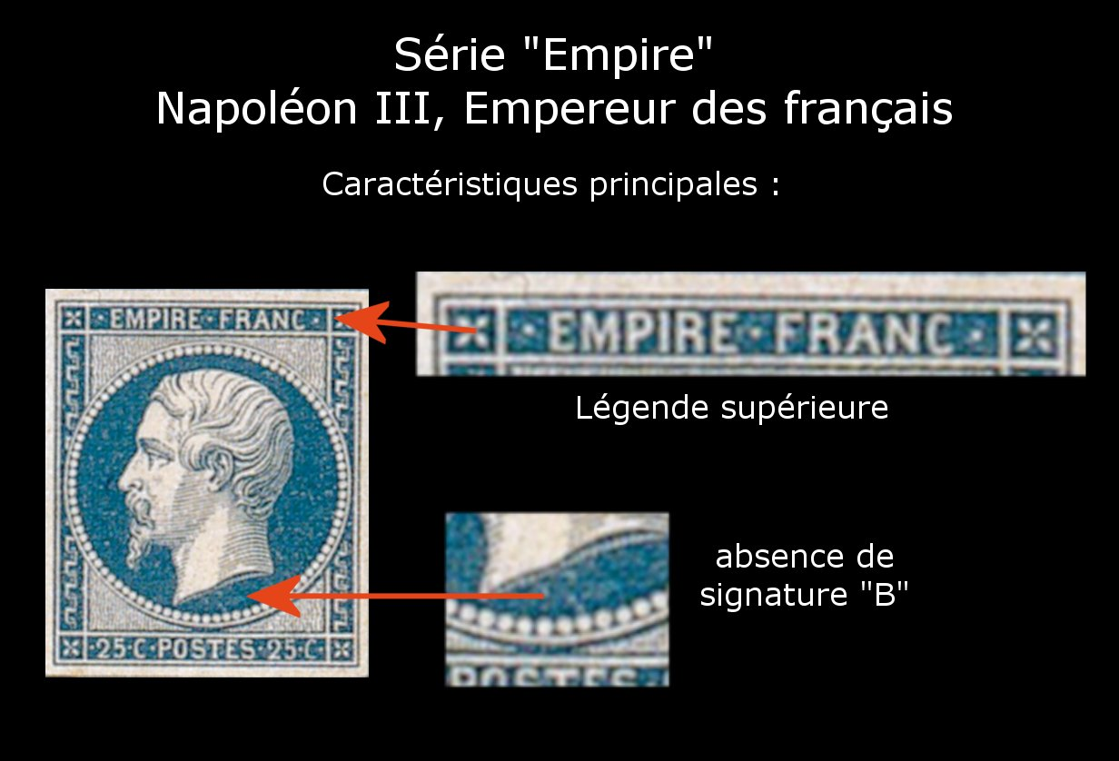 Subtype off stamps off France, Empire, Napoleon III (1853)